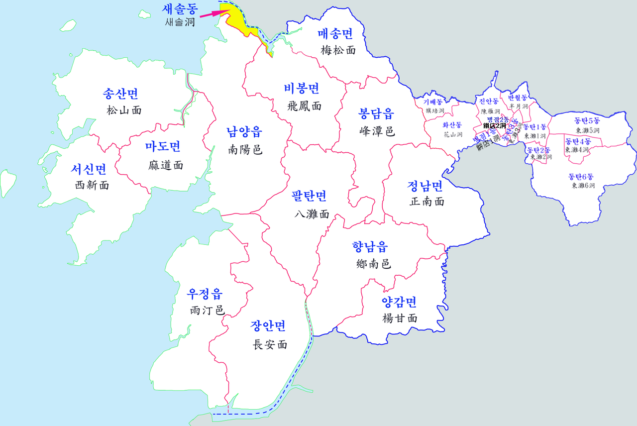 Hwaseong-map